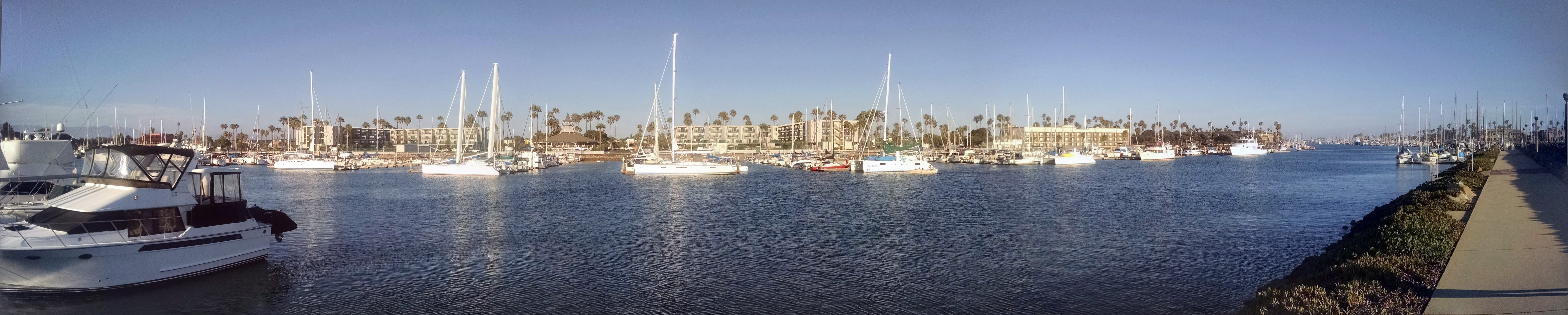 Channel Islands Harbor from west side looking east towards peninsula in the late afternoon